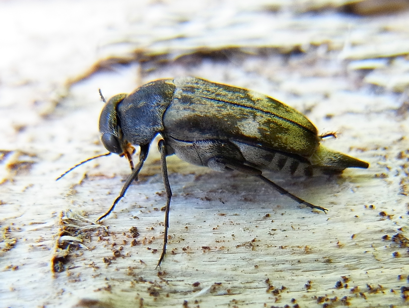 Tomoxia bucephala from Hungary, at Kötelek on dry poplar at 2012-06-21